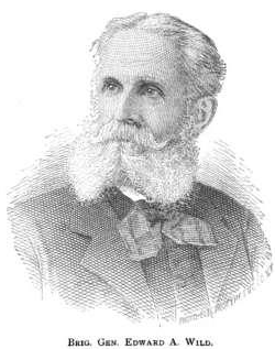 Brig General Edward A. Wild in later years. From Massachusetts in the War, 1861-1865 by James Lorenzo Bowen (1842-1919). Published by C. W. Bryan & Co., 1888.